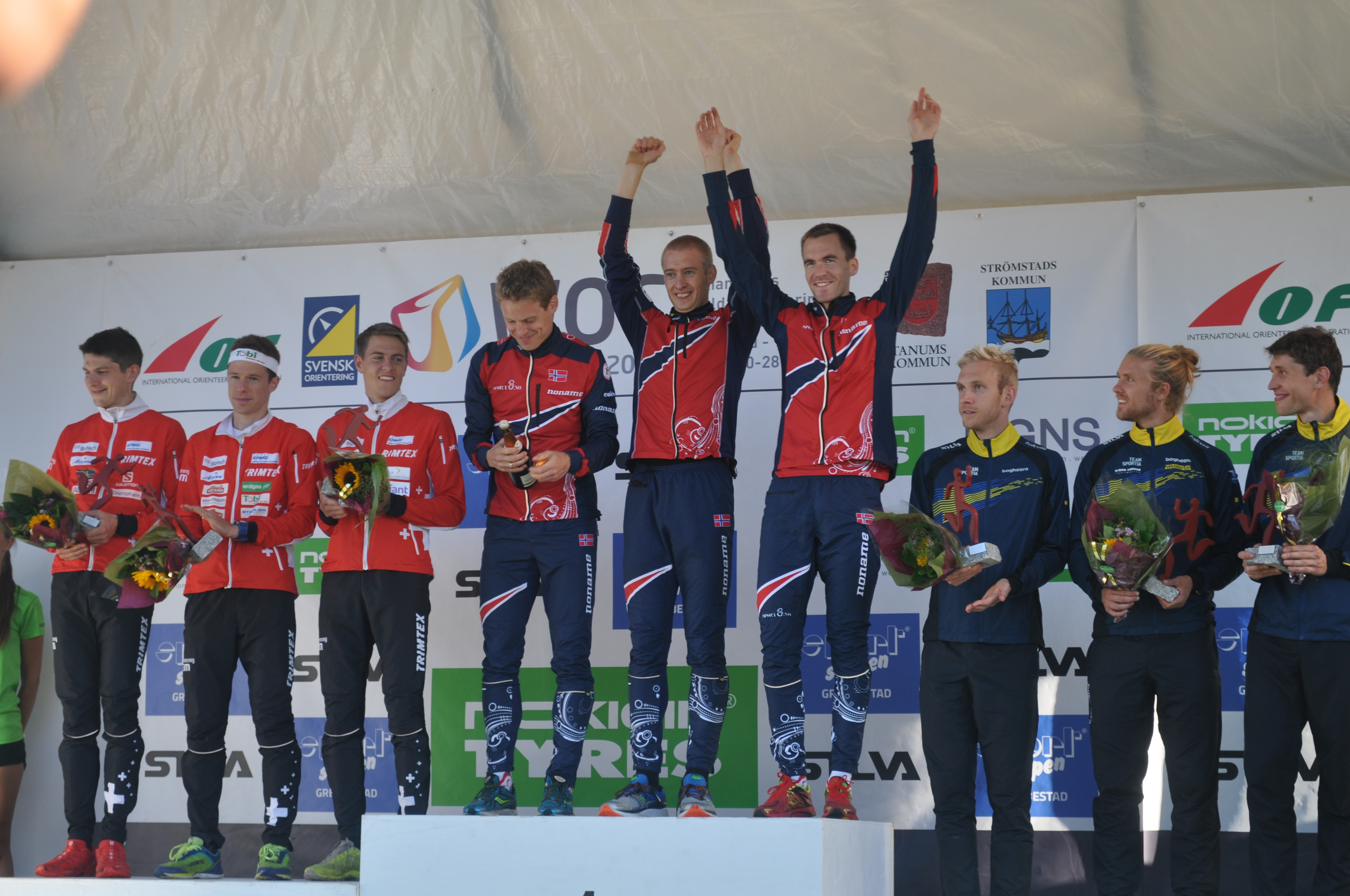 WOC 2016 Relay flower ceremony.